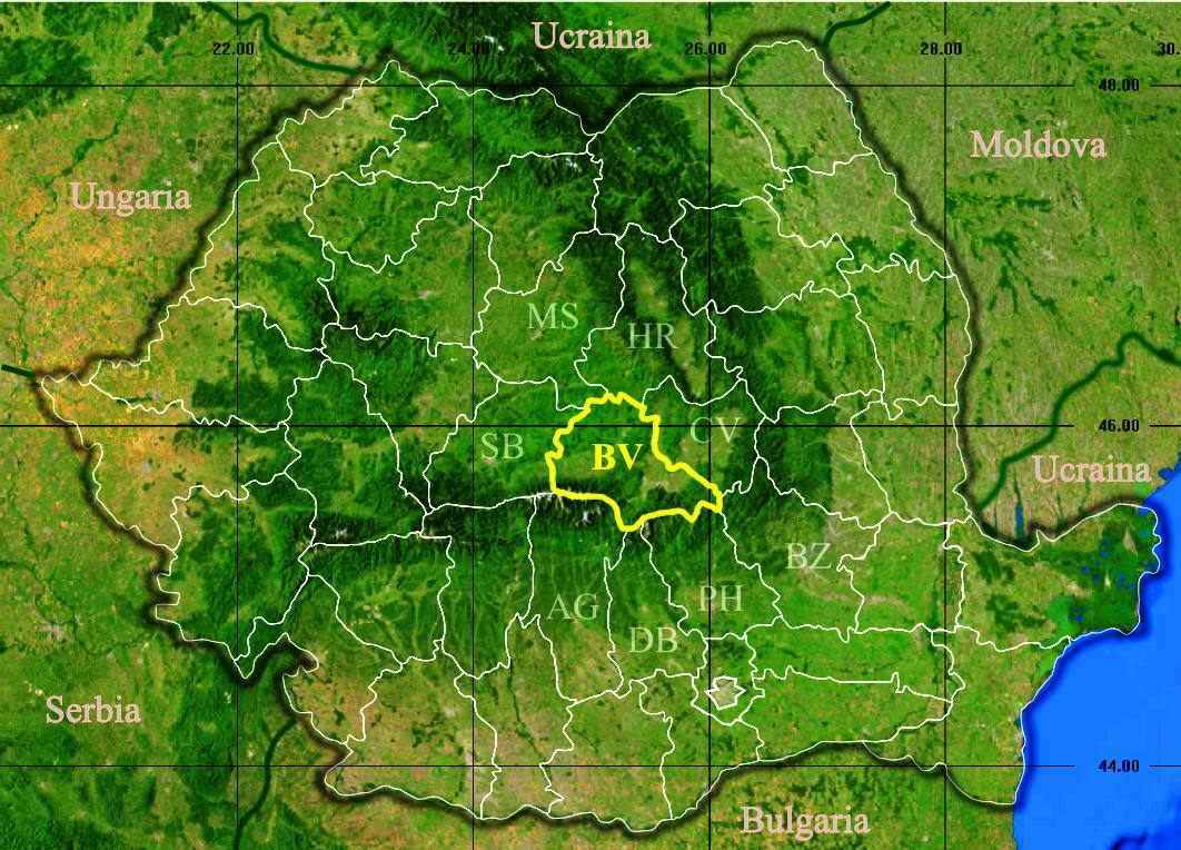 Location of Brașov County in Romania.